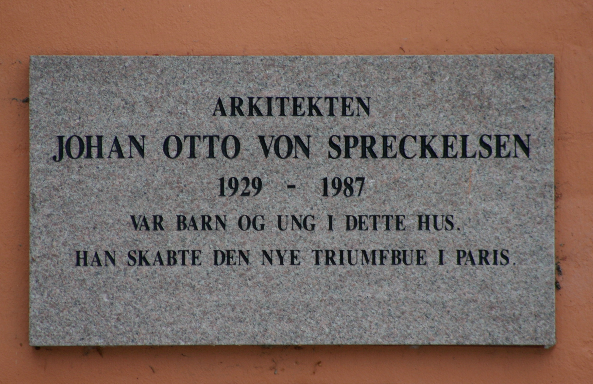 Memorial tablet for the architect Johan Otto von Spreckelsen at his place of birth in Viborg, Denmark. Mindetavle for arkitekten Johan Otto von Spreckelsen på hans barndomshjem i Sct. Mogens Gade i Viborg